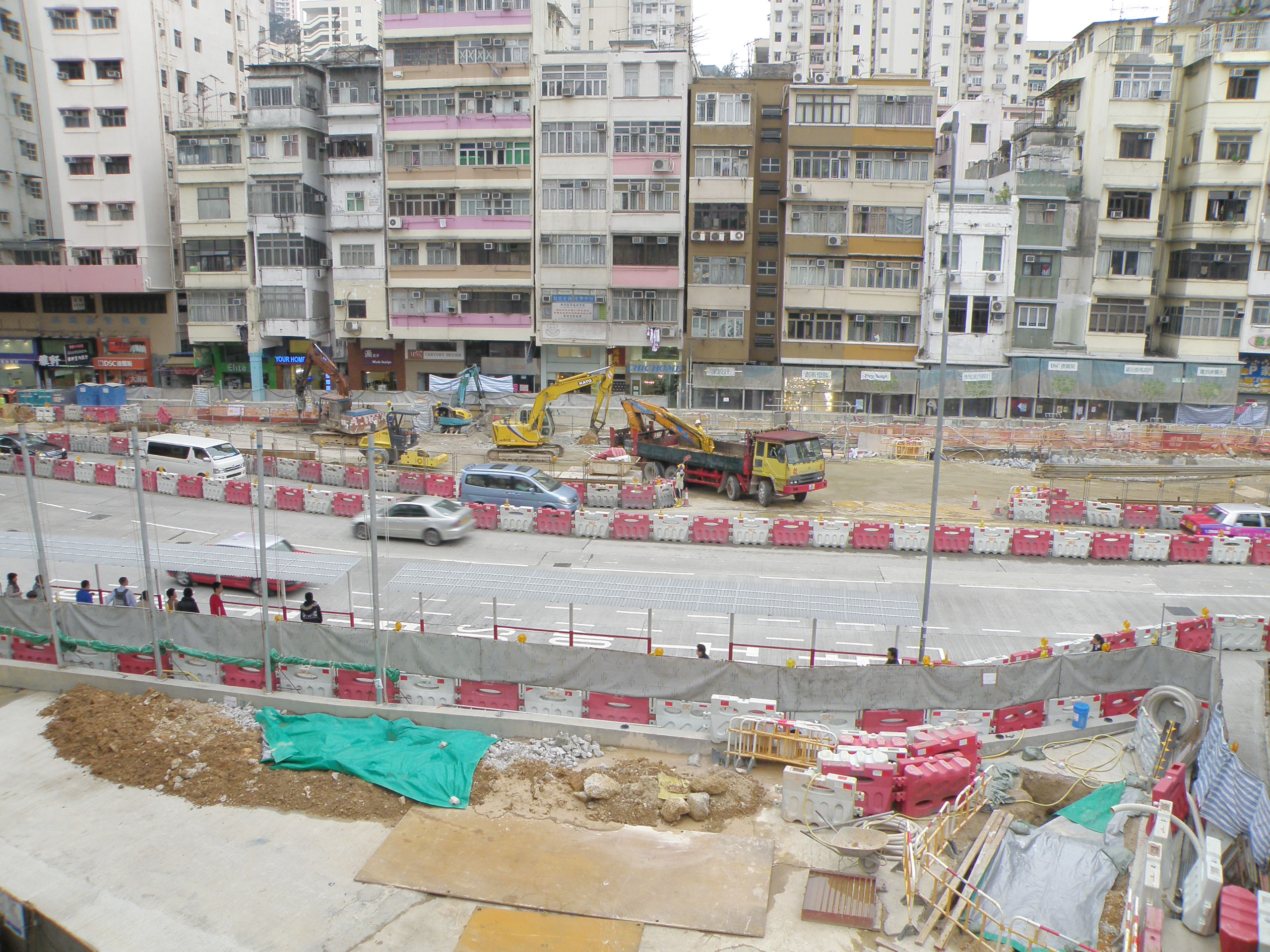 To Kwa Wan Station in Ma Tau Wai, Hong Kong.